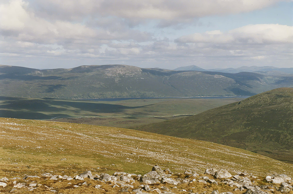 Southern slopes of Geal Charn Except for the steep slopes above Loch a' Bhealaich Leamhain, those on the south side of Geal Charn are moderate and mossy, as seen here. Loch Ericht can be seen in the distance with Beinn Udlamain beyond.